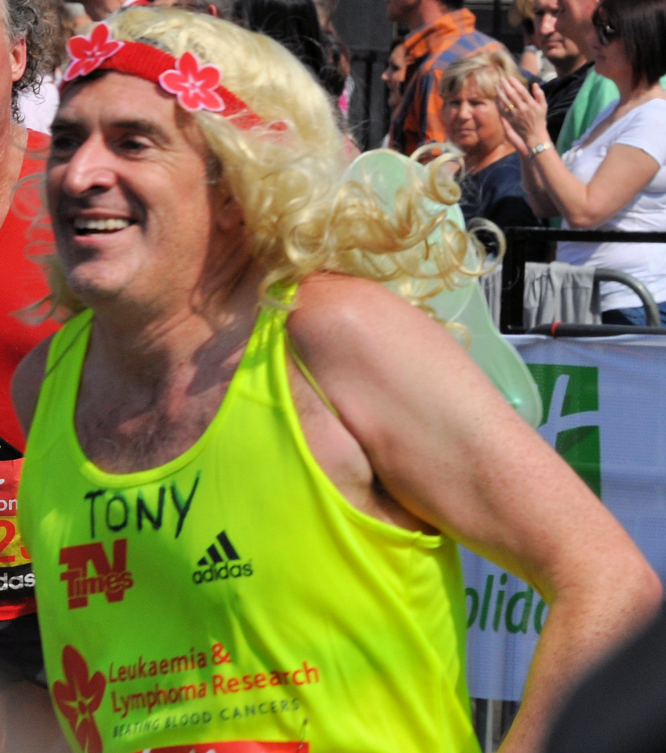 Tony sprinting out of the closet